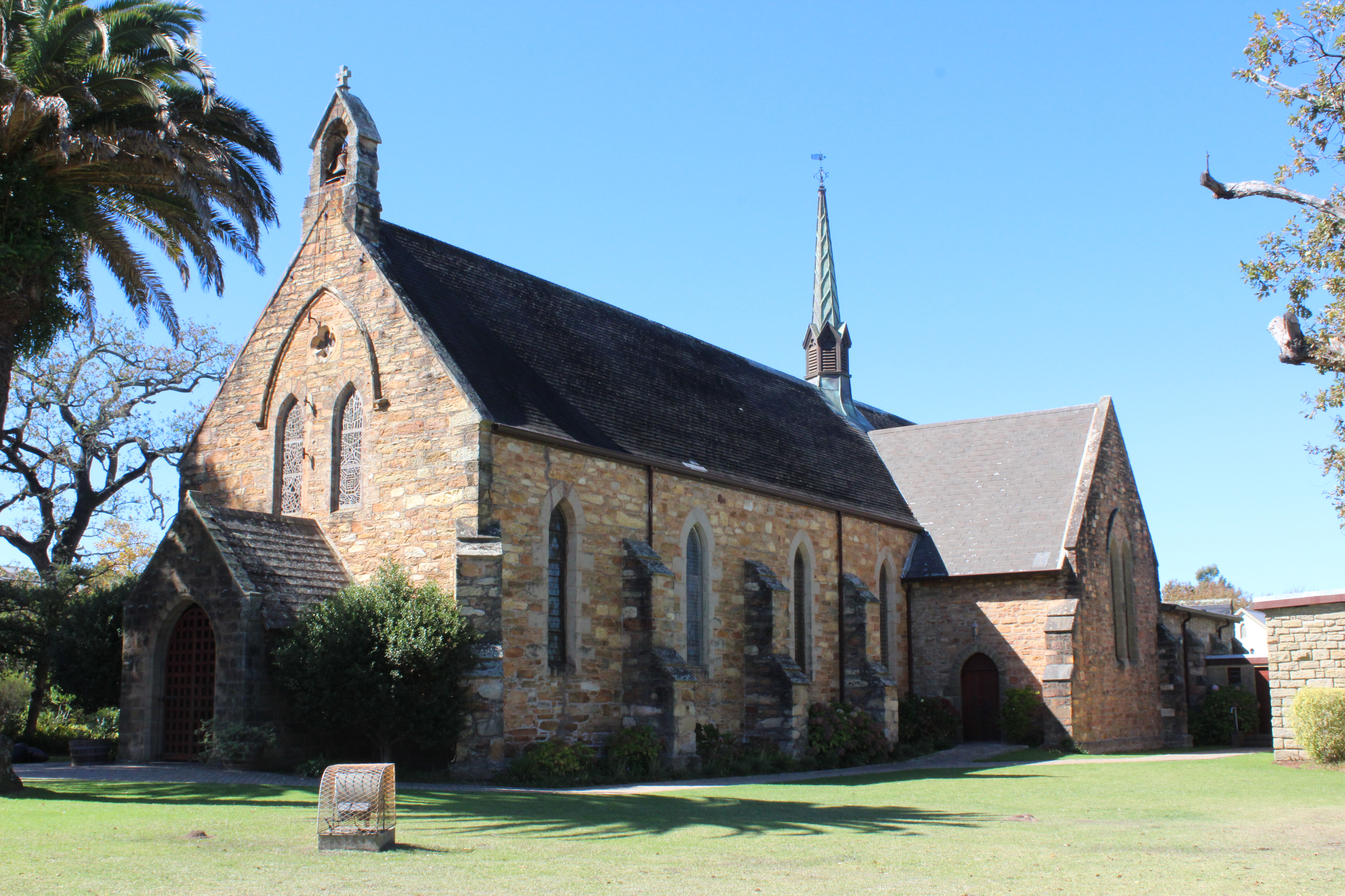 Thanks to Elizabeth Benn for the photo.